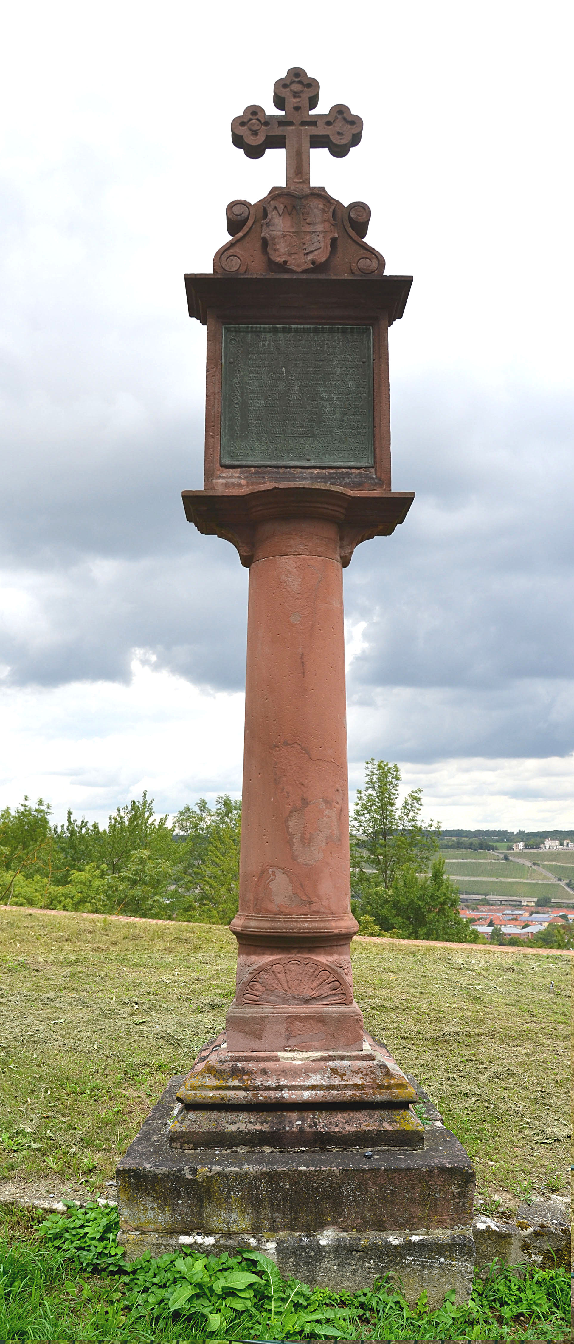 Melchior Zobel von Giebelstadt death marker by upper Marienburg parking lot Wurzburg